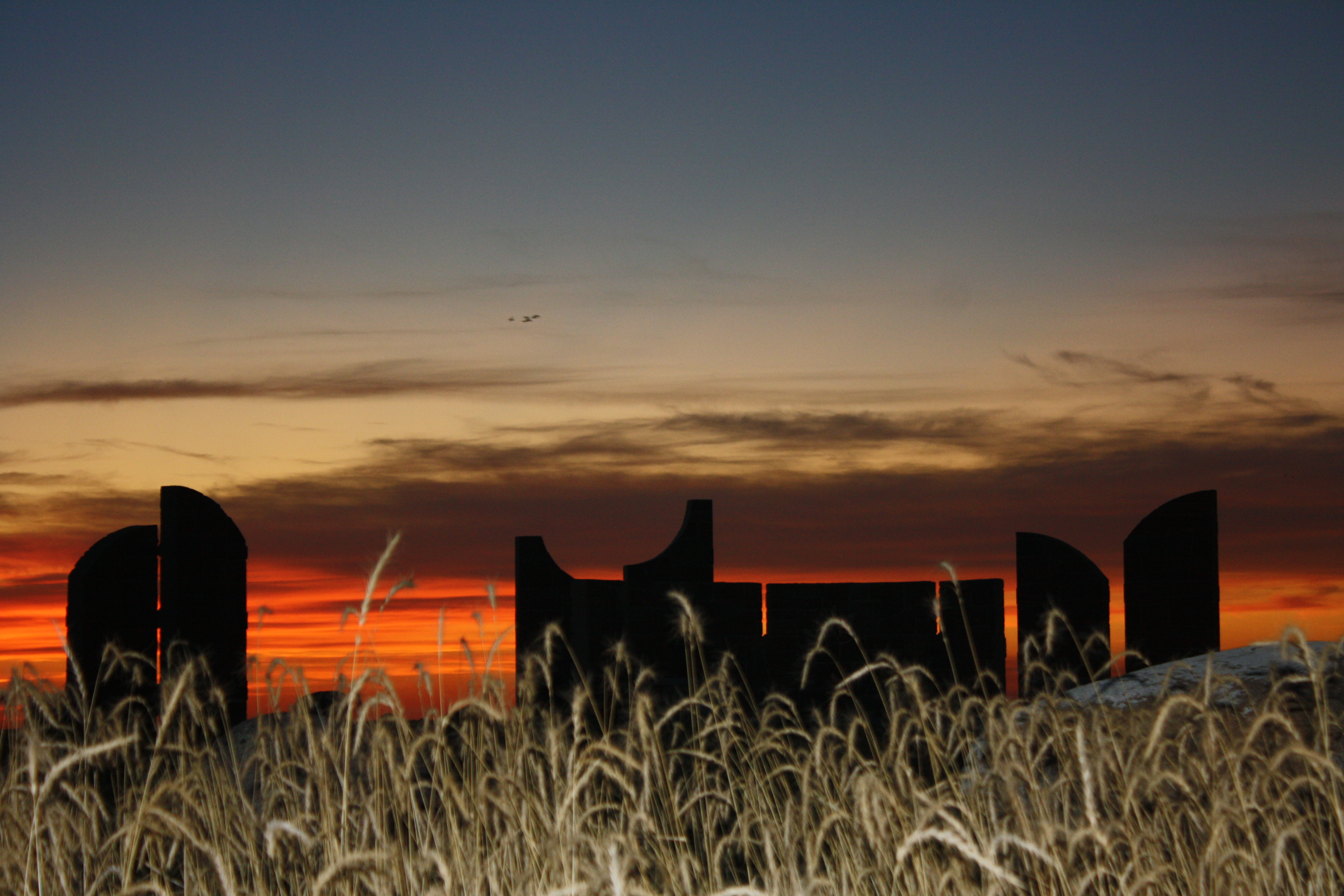 Taken 09-27-11.